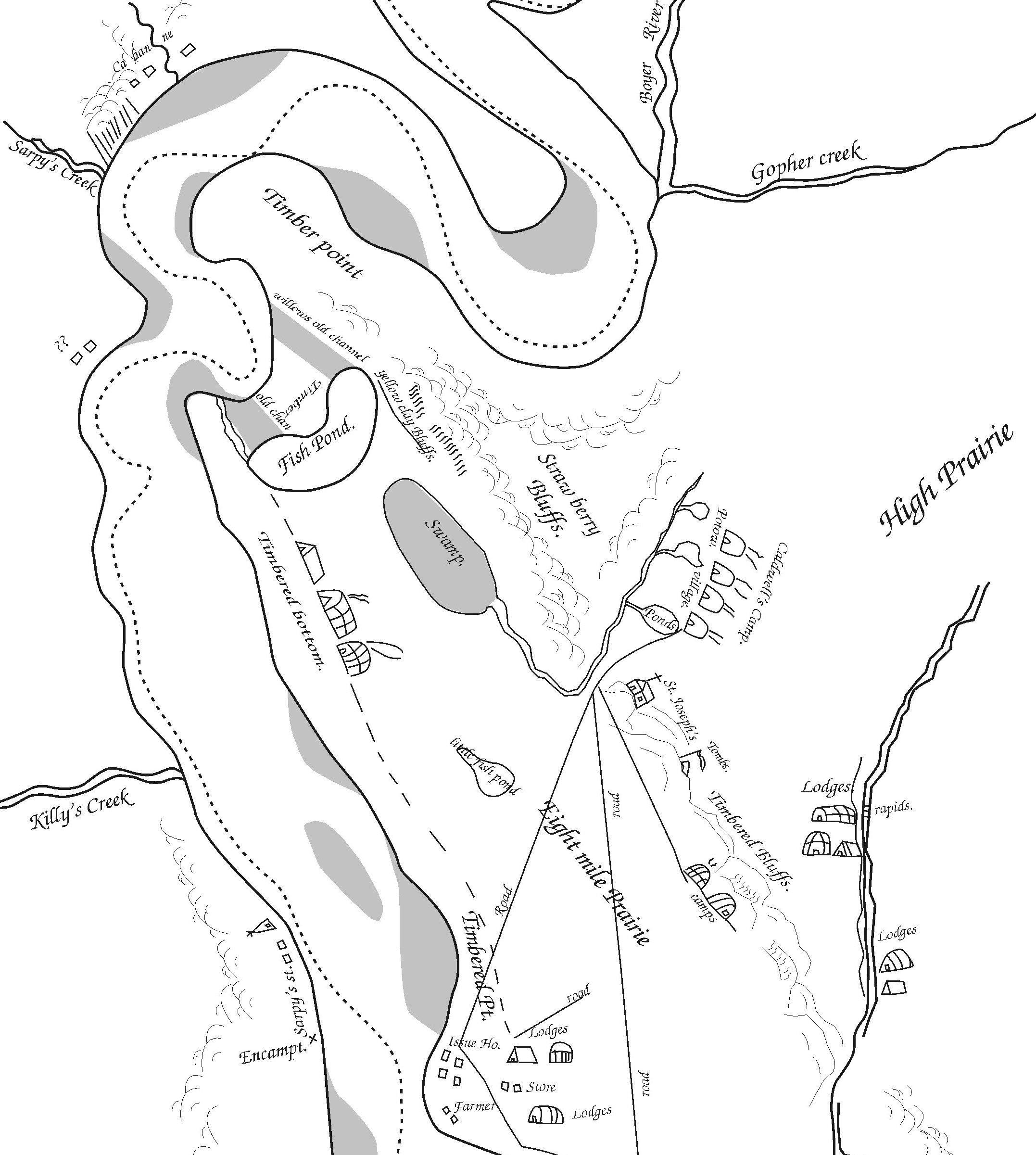 A small portion of Pierre-Jean De Smet's 1839 map of the Council Bluffs Region, traced by the contributor. The area labeled "Caldwell's Camp" was probably near or just southeast of Broadway, the "Fish Pond" is Big Lake Park, and "St. Joseph's" was the Council Bluffs blockhouse.